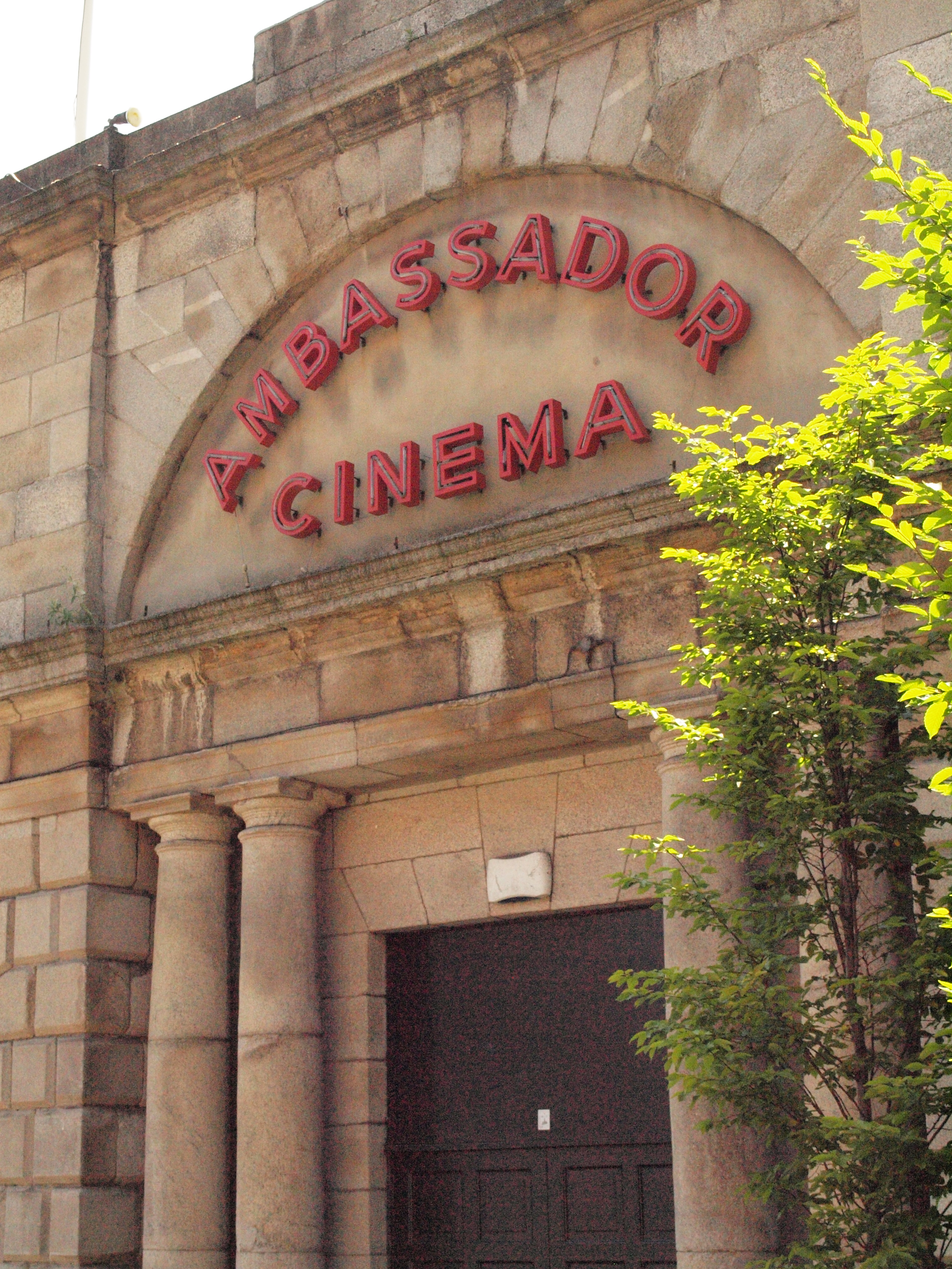 Ambassador Cinema